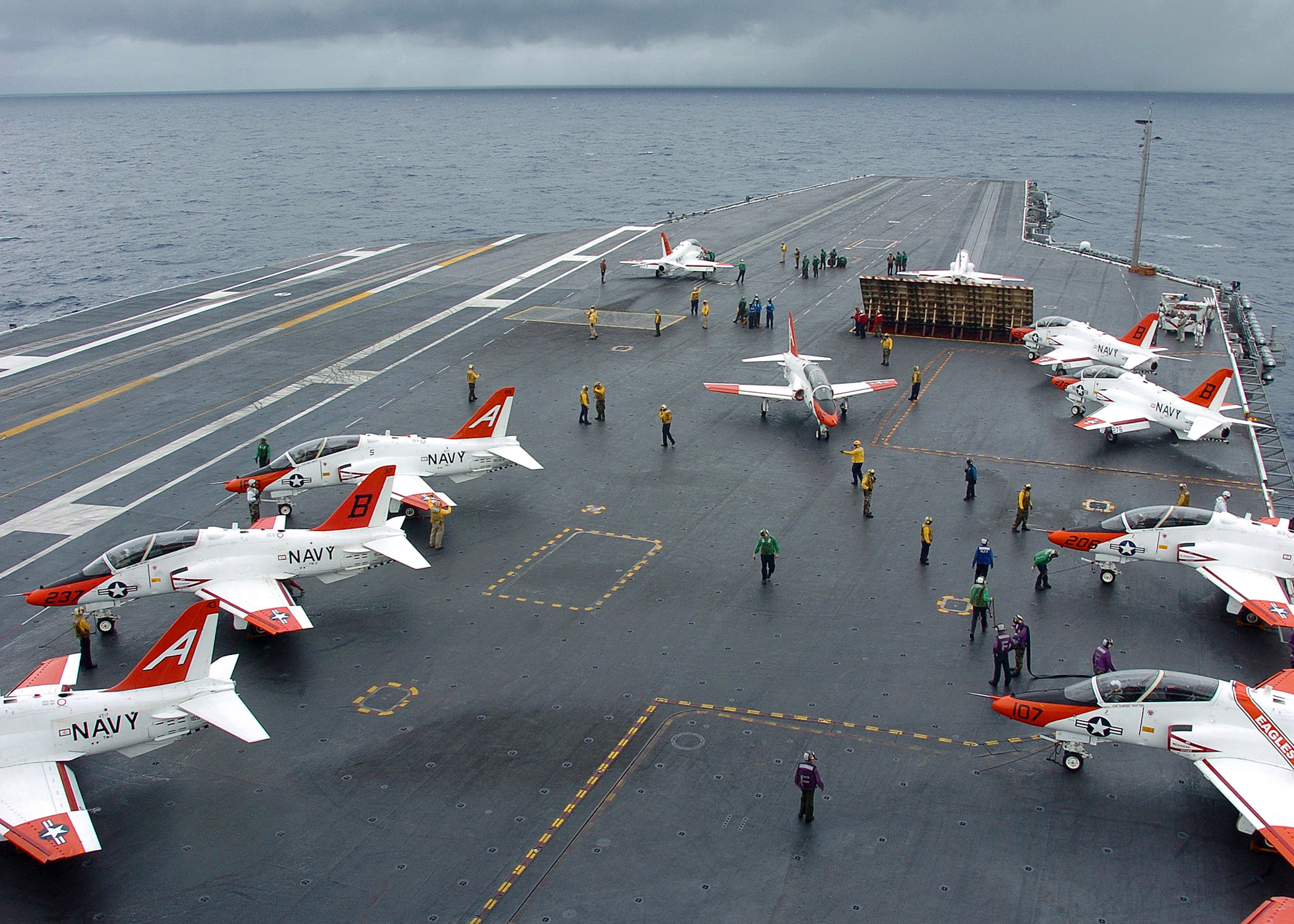 Atlantic Ocean (June 24, 2005) – T-45A Goshawk trainer aircraft, assigned to Training Air Wings One and Two, cover the flight deck aboard the Nimitz-class aircraft carrier USS Harry S. Truman (CVN 75) during launch and recovery training exercises. Truman is currently at sea conducting carrier qualifications. U.S. Navy photo by Photographer's Mate 3rd Class Jay C. Pugh (RELEASED)